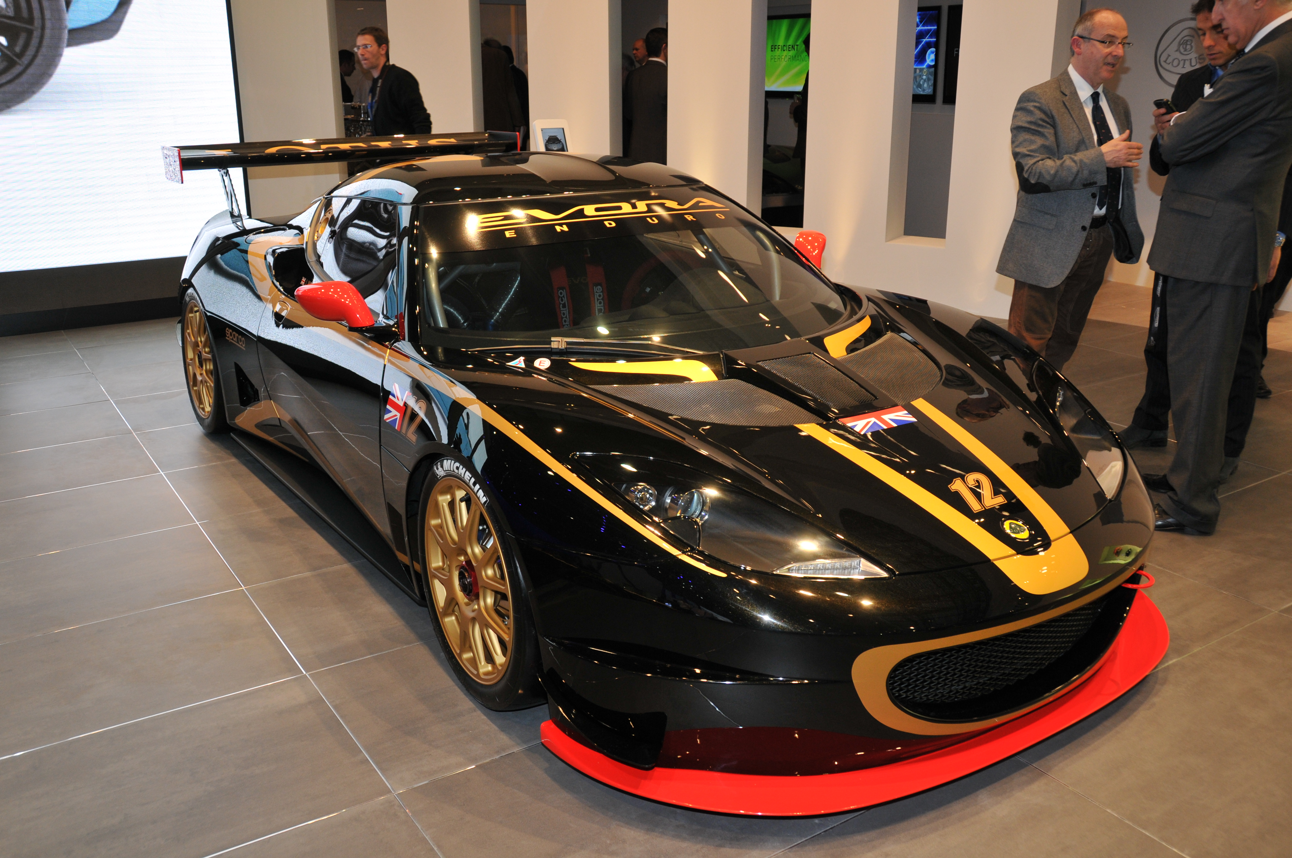 Lotus Evora Enduro at the Geneva Motor Show 2011. More pictures and info